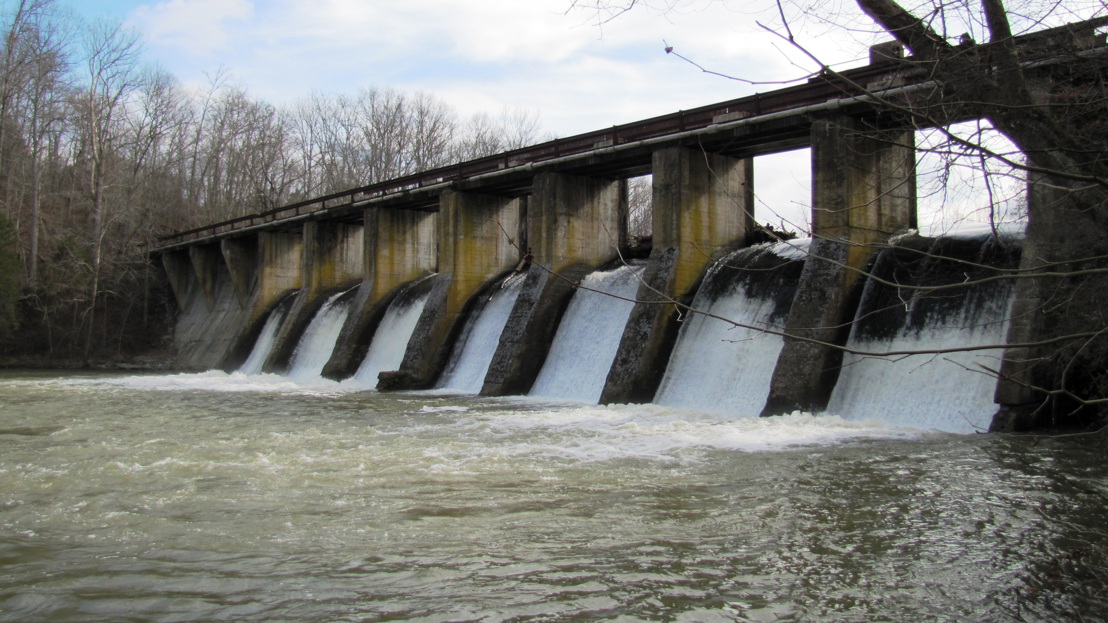 Burgess Falls Dam, spanning the Falling Water River in Putnam County, Tennessee, USA. The dam once supplied electricity to the Cookeville area.